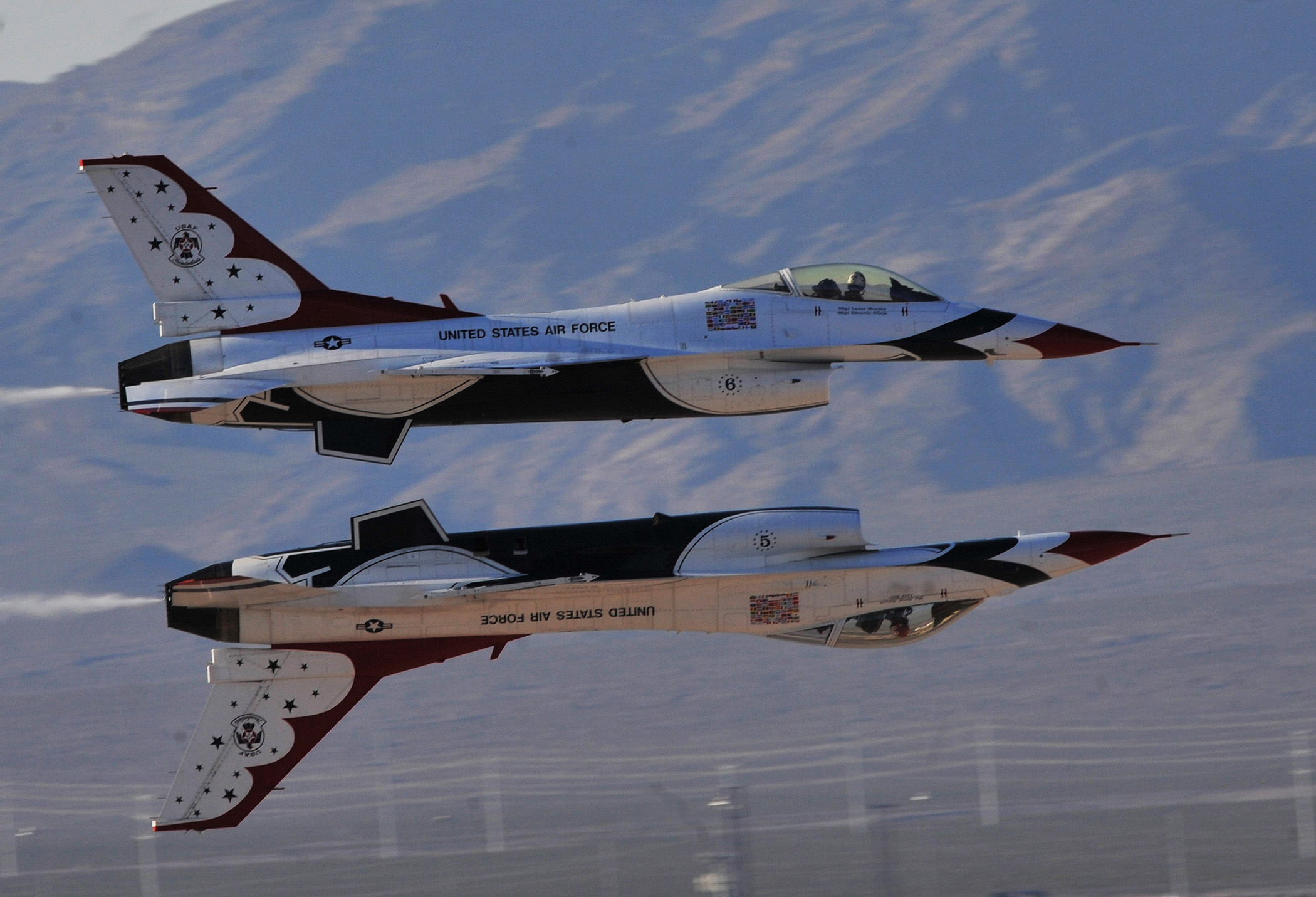 The United States Air Force Air Demonstration Squadron Thunderbirds opposing solos demonstrate the calypso pass during the 2011 Aviation Nation Nellis Open House Nov. 12. The Nellis Open House is an opportunity for the Las Vegas community to view aerial demonstrations and static displays of various aircraft from the military. The open house also acts as the final air show of the year for the U.S. Air Force Aerial Demonstration Squadron Thunderbirds.